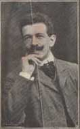 Swiss conductor, composer and educator Franck Choisy (1872-1966)